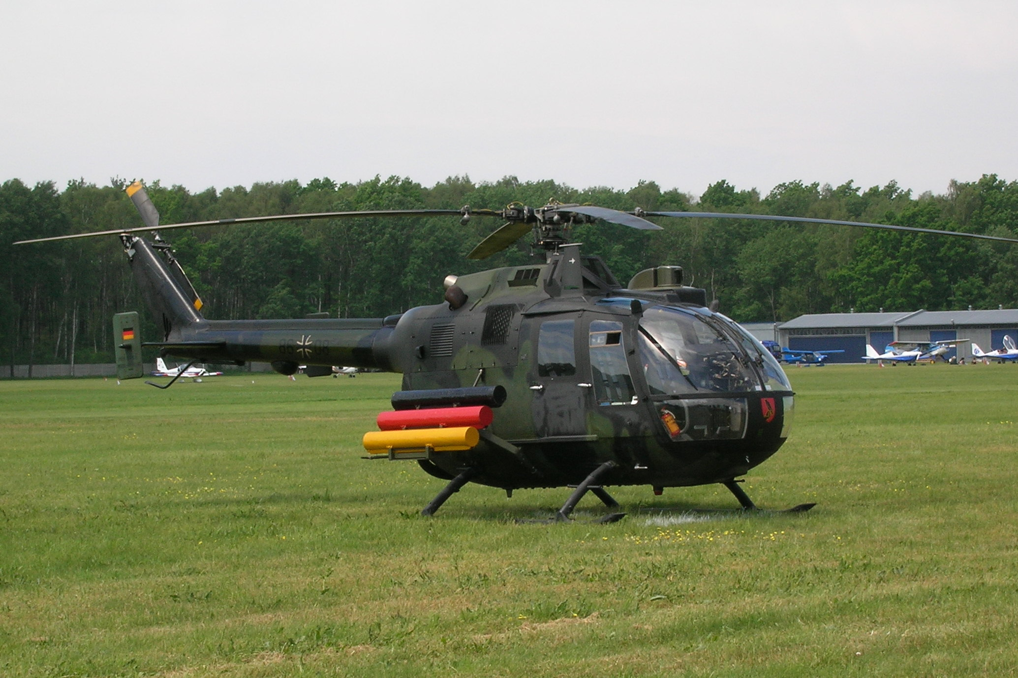 Copyright © 2005 Voytek S Bölkow Bo 105 during Góraszka Air Picnic 2005, Poland At the nose of the Bo-105 the coat of arms of the German Army Aviatiors School is seen. The helicopter is based at the Heeresflugplatz Celle (Celle Air Base).